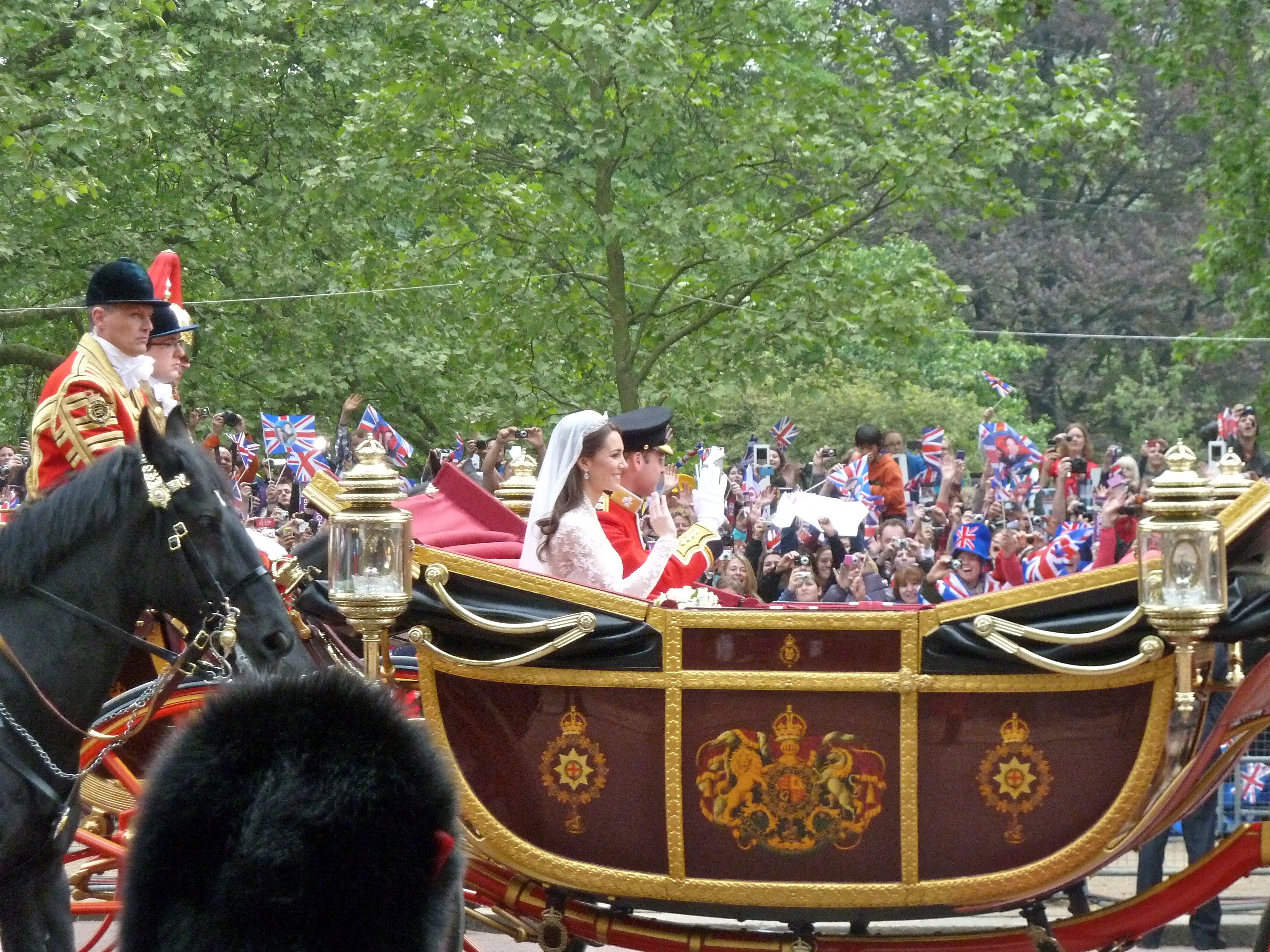 At Wedding of Prince William of Wales and Kate Middleton: Both in carriage after church.